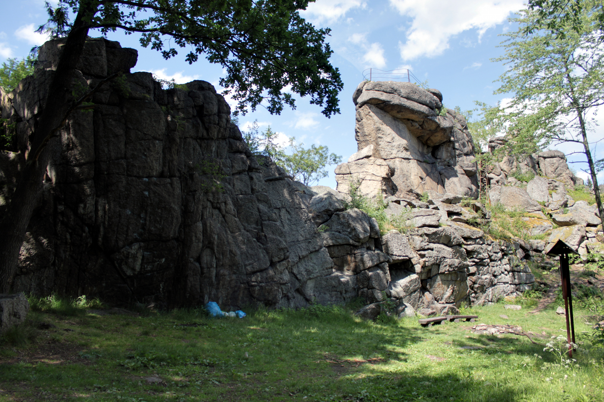 Bobrowe Rocks - view from SW